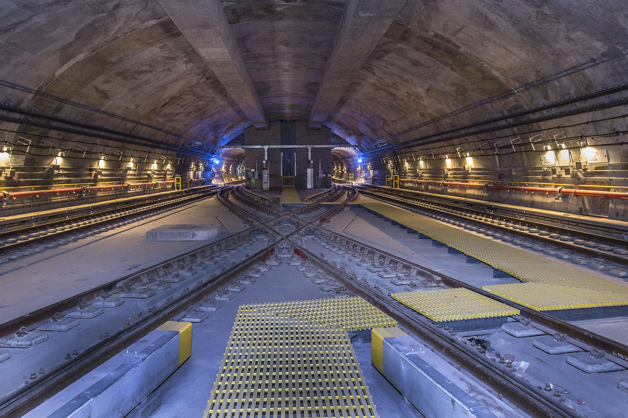 34 St-Hudson Yards Station